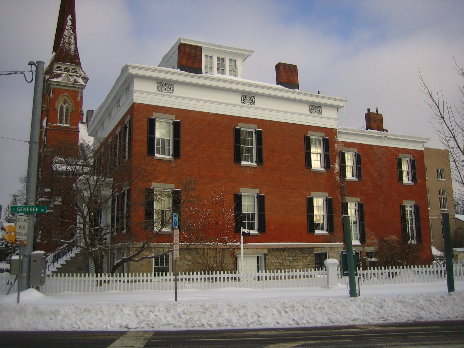 Hamilton White House, Syracuse, New York. Photo 3.